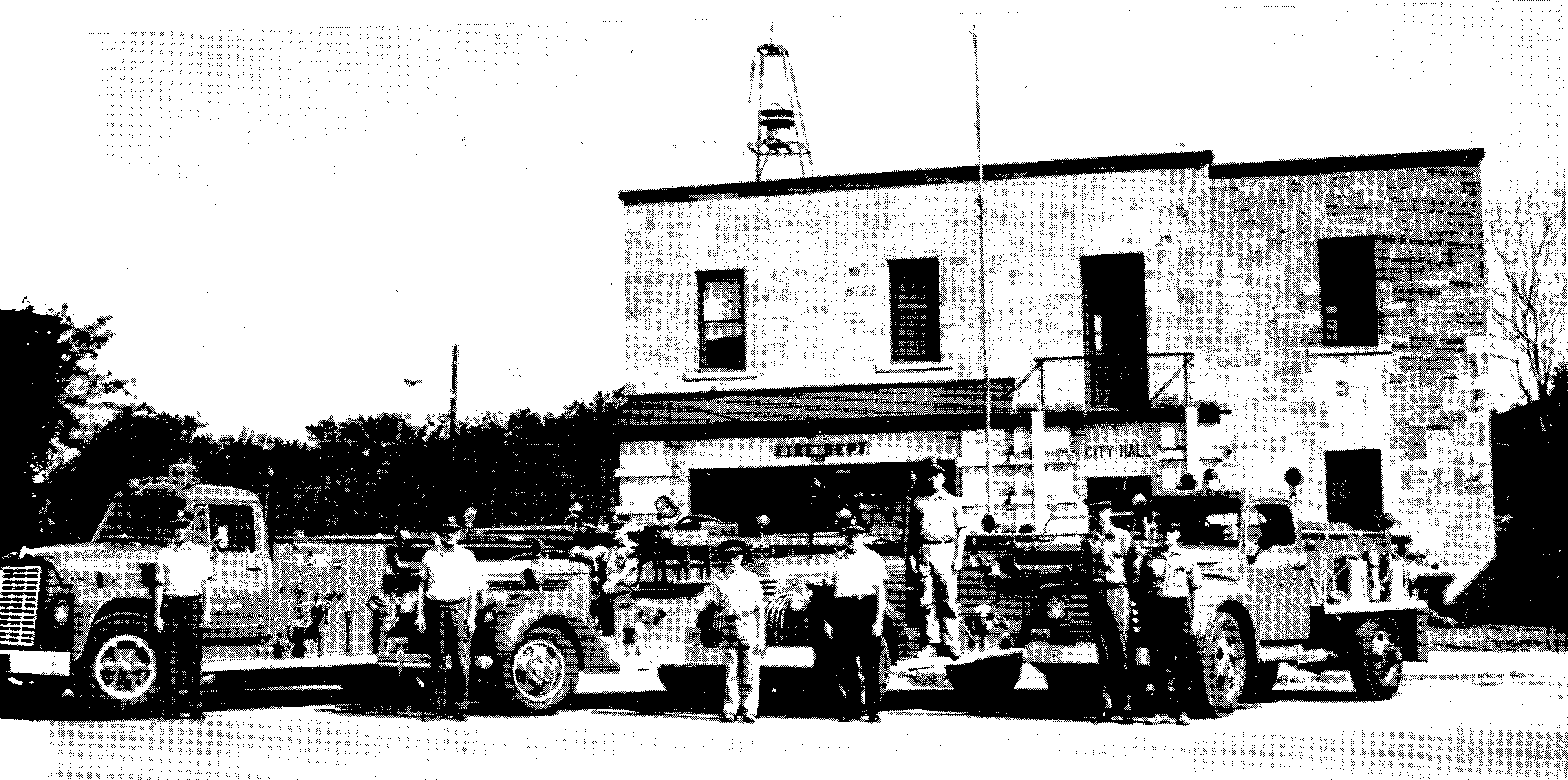 Former Round Rock, TX City Hall and Fire Dept. Fire Dept. Officers and Truck Captains L to R: Captain JB Johnson, truck #4, Cody Adolphson, Fire Chief & Fire Marshal, Raymond Sellstrom, Captain, truck #1 (in truck), Jack Swinden (Mascot), CK Swinden, 2nd Assistant Chief, OT Bengtson, Jr., Captain, truck #2, John Collins, Captain truck #3, and Stewart Rohre, Vice President.